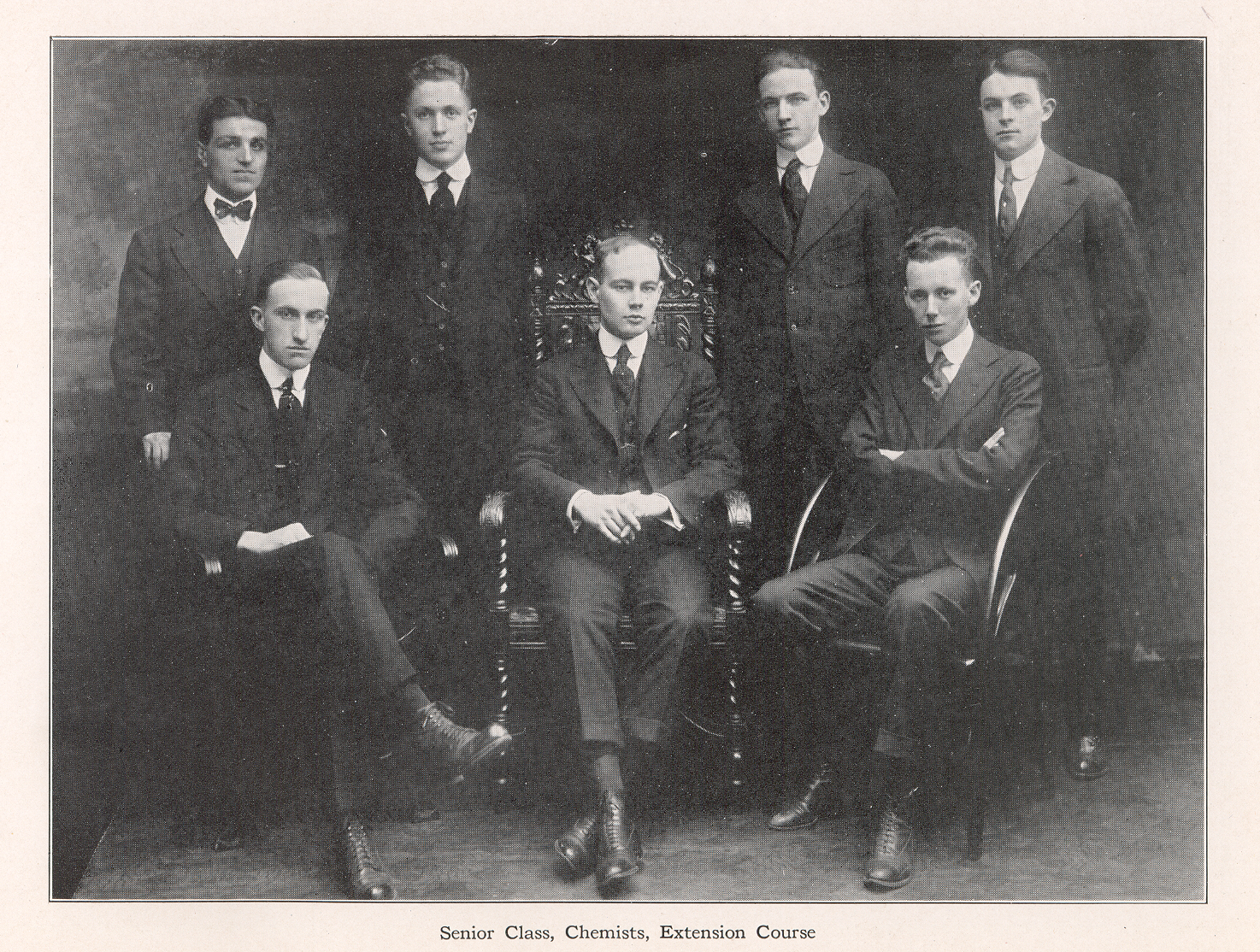 Photograph of the 1916 Senior Chemistry class of Drexel University